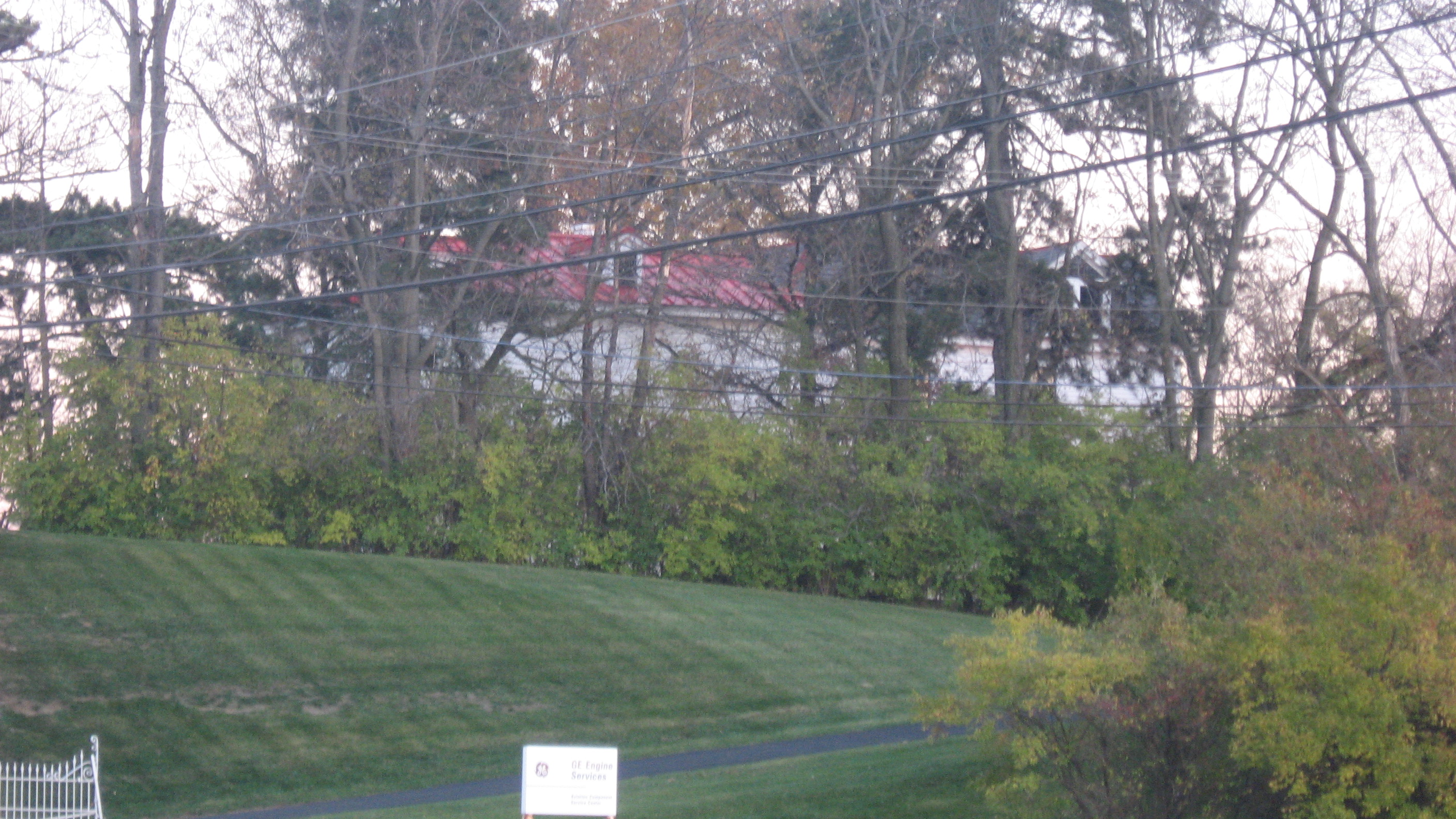 Western side of the Becker House, located at 179 W. Crescentville Road in Springdale, Ohio, United States. Built in 1830, it is listed on the National Register of Historic Places.